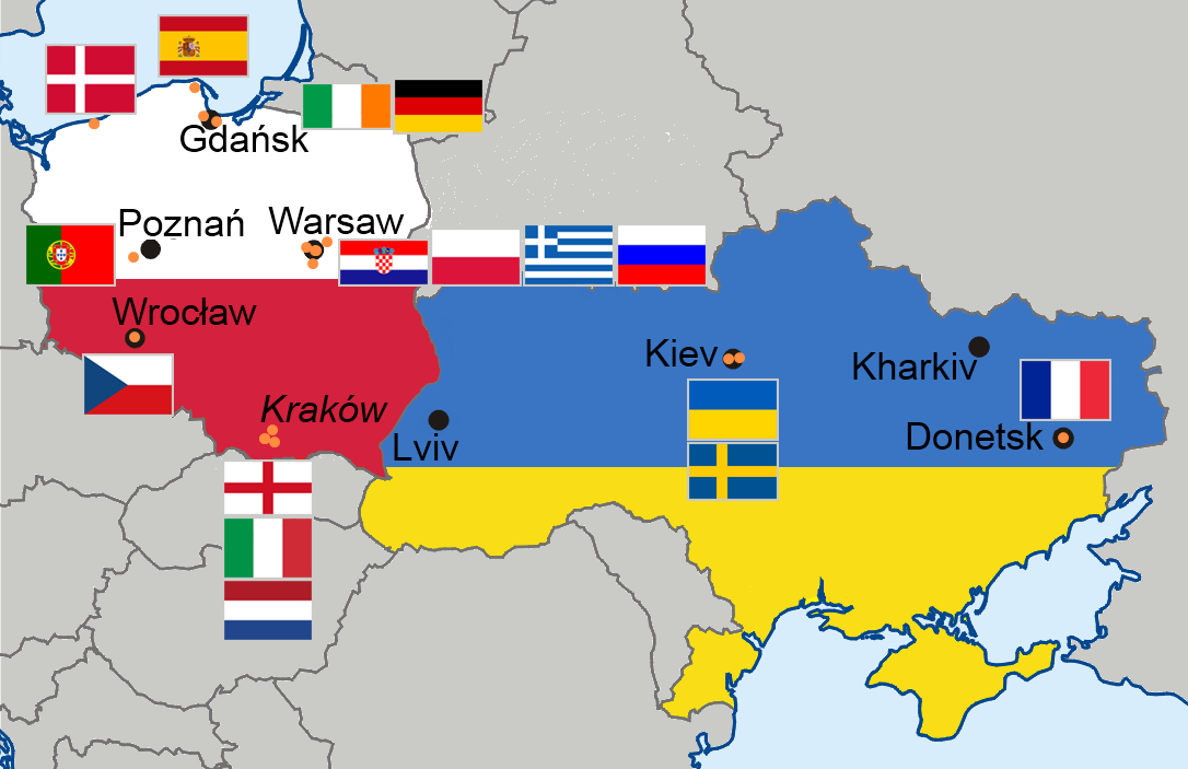 The following cities will host the football teams playing in the finals of Euro 2012